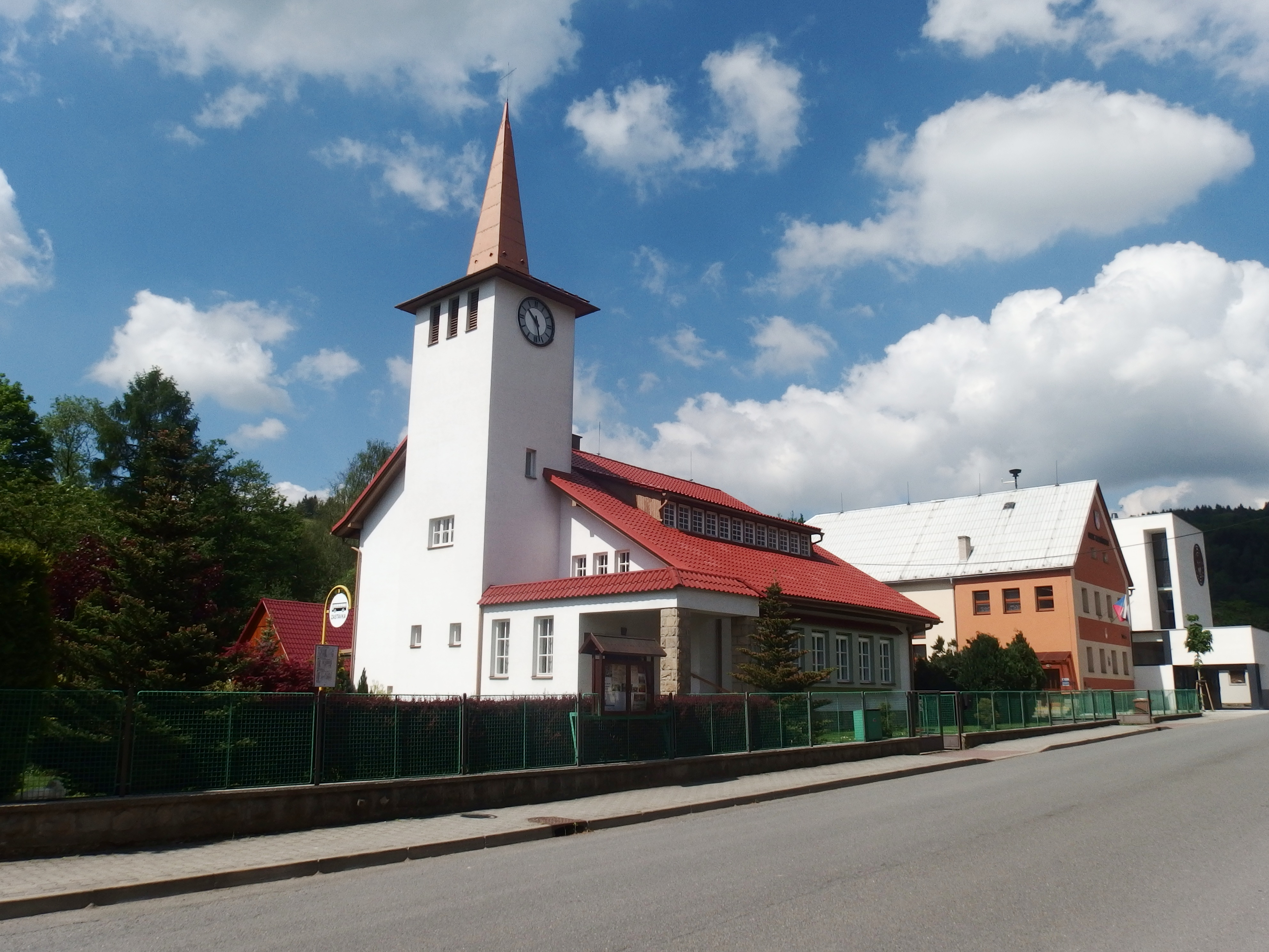 Kateřinice, Vsetín District, Czech Republic. Evangelical church.